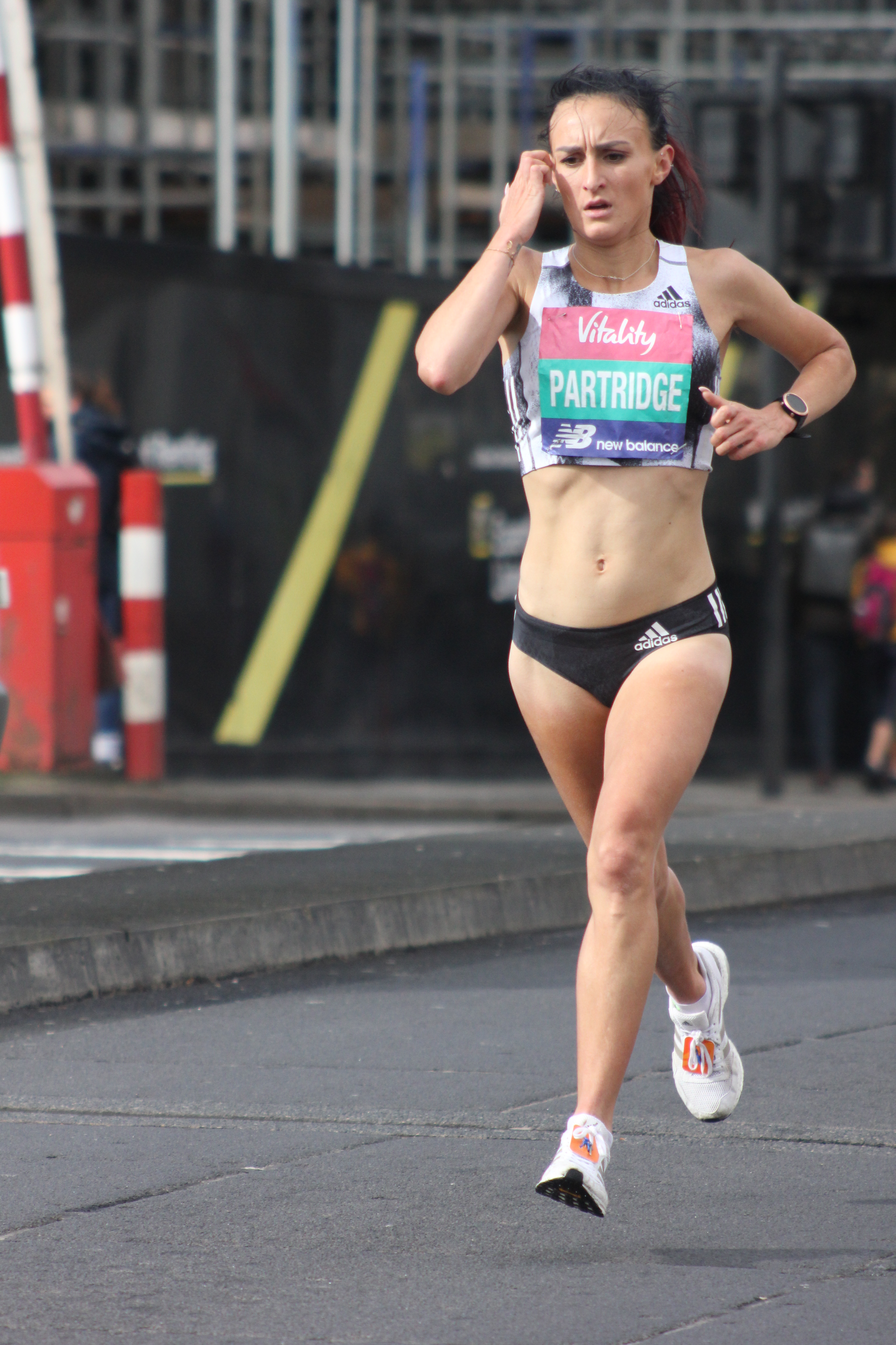 Lily Partridge competing in 2019 London Half Marathon